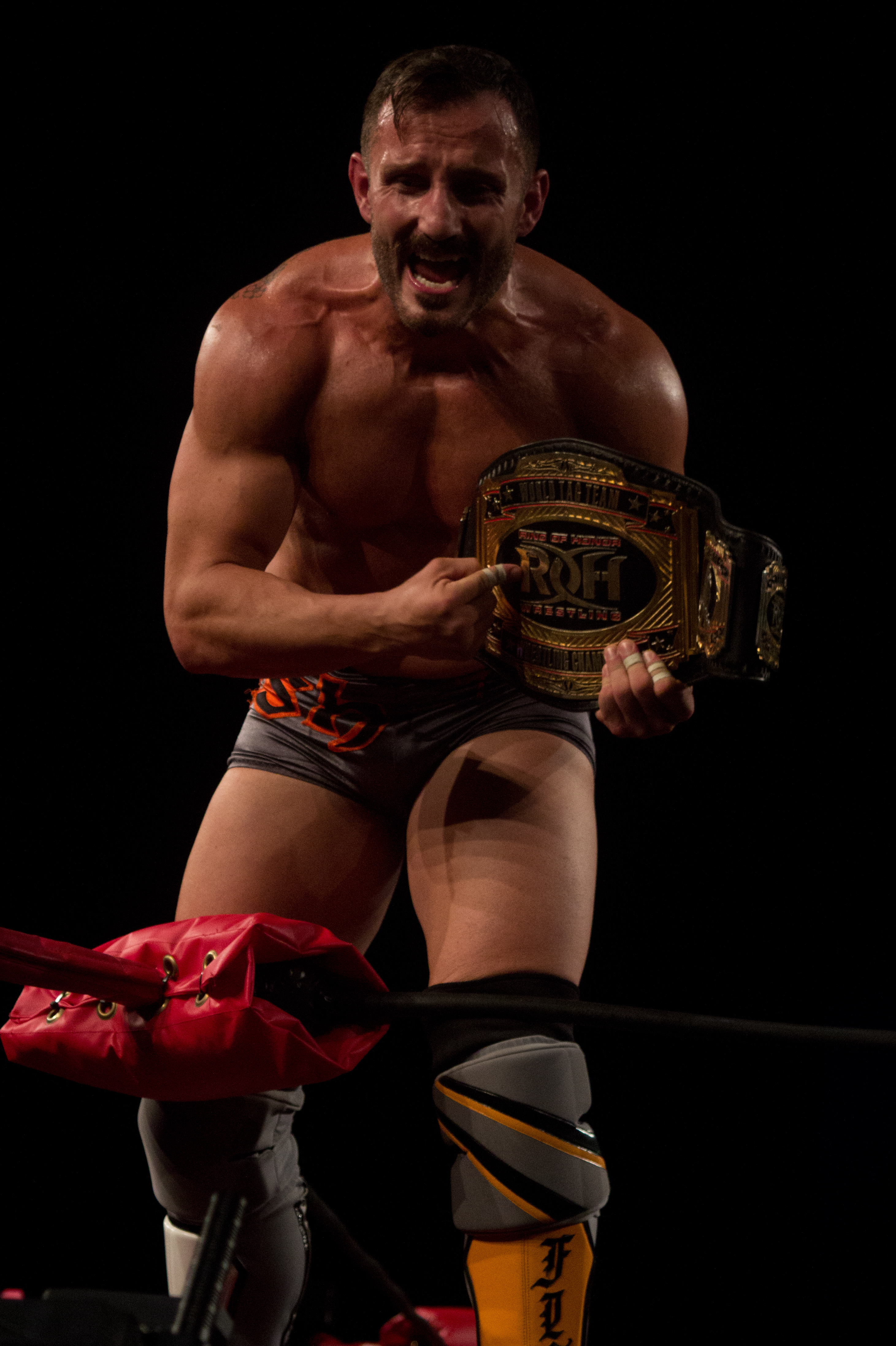 Bobby Fish, one-half of the ROH World Tag Team Champions, at a Ring of Honor show on September 7, 2013.